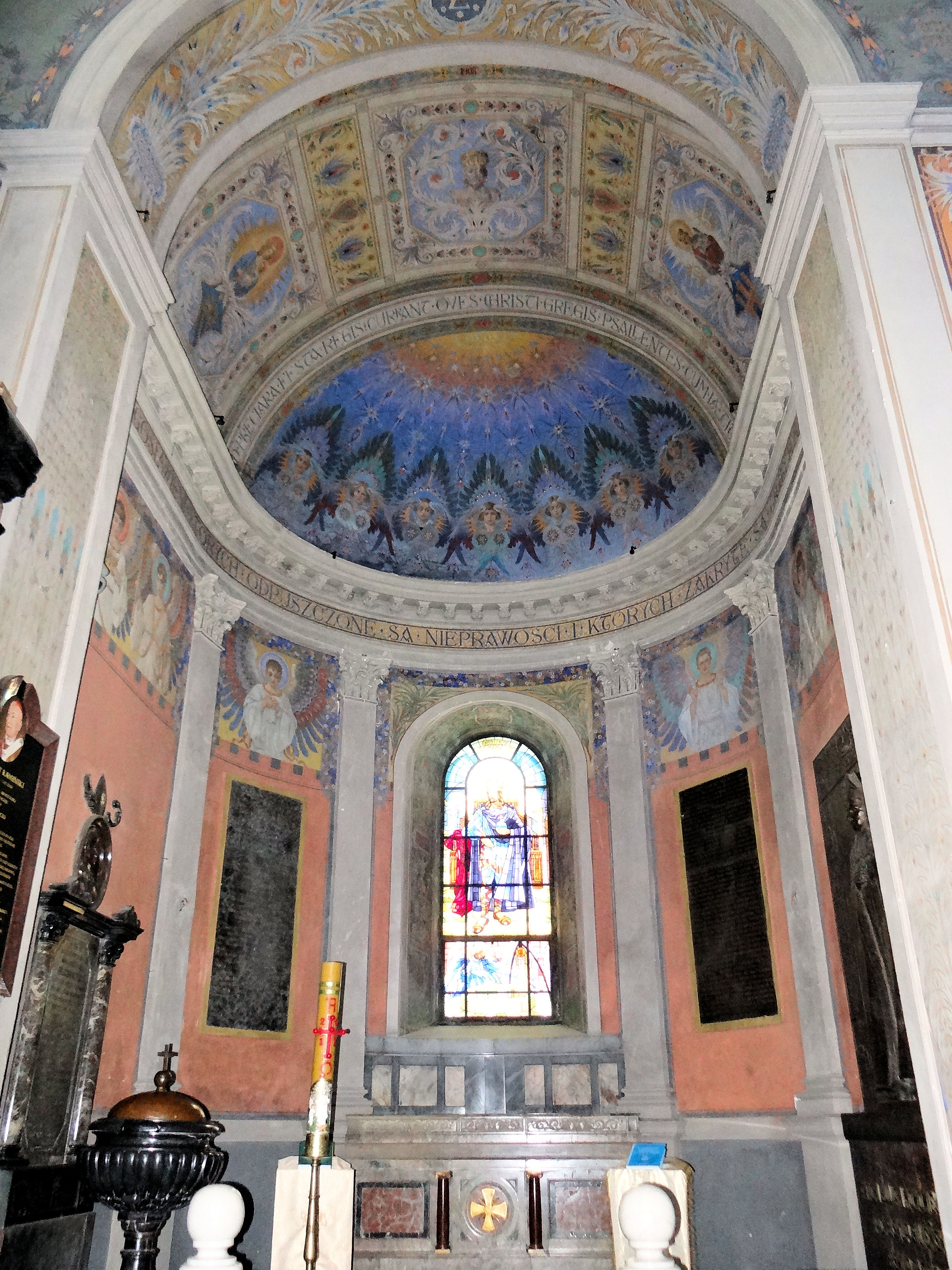 Altar of Płock Cathedral